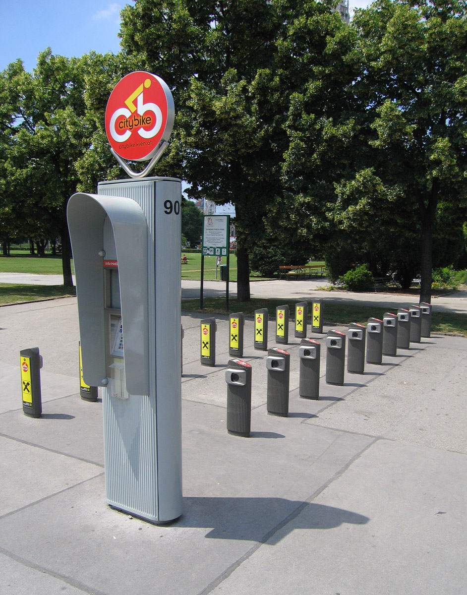 Citybike station in Wien.